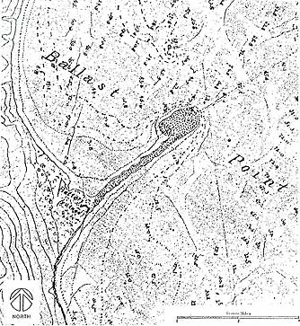 Map of Ballast Point and Fort Guijarros, near present-day San Diego, California, 1851. Caption at source reads, "San Diego Bay, California. “Battery (ruined)”; Enlarged detail of the tracing on the plan table sheet of the San Diego Bay, California. Survey by A.M. Harrison. Source: U.S. Coast Survey, 1851."